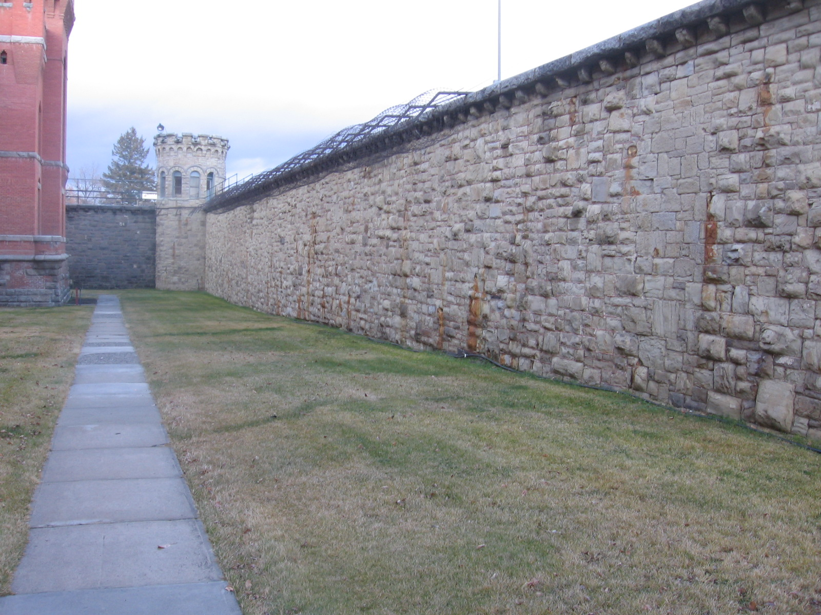 A view of the wall of the Old Montana Prison